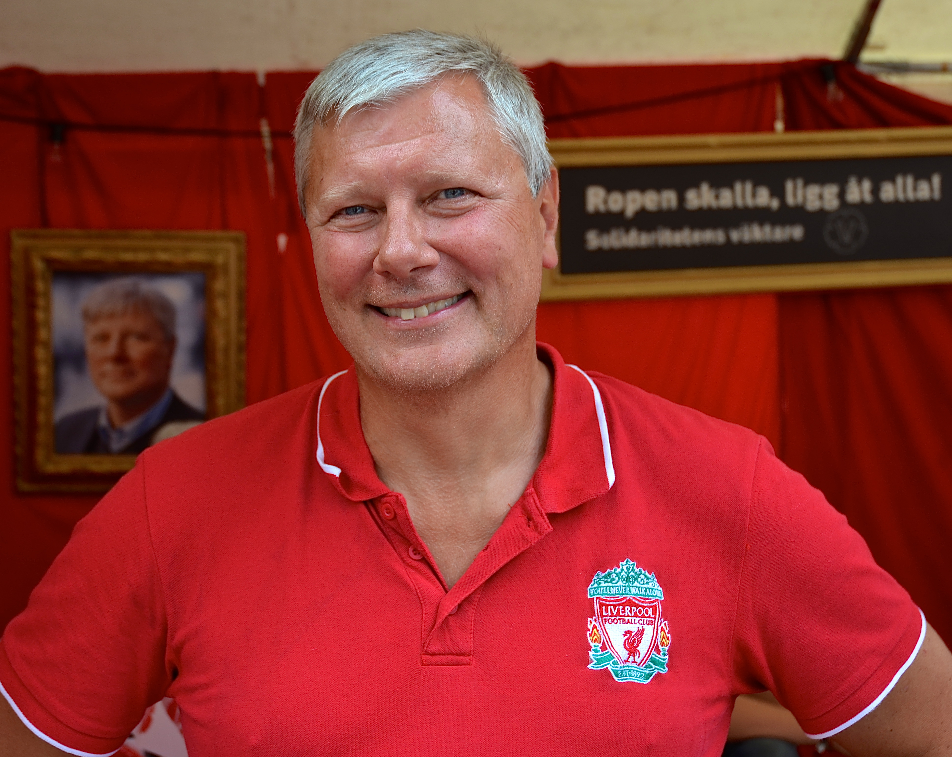 Lars Ohly at Stockholm Pride August 6th 2011.